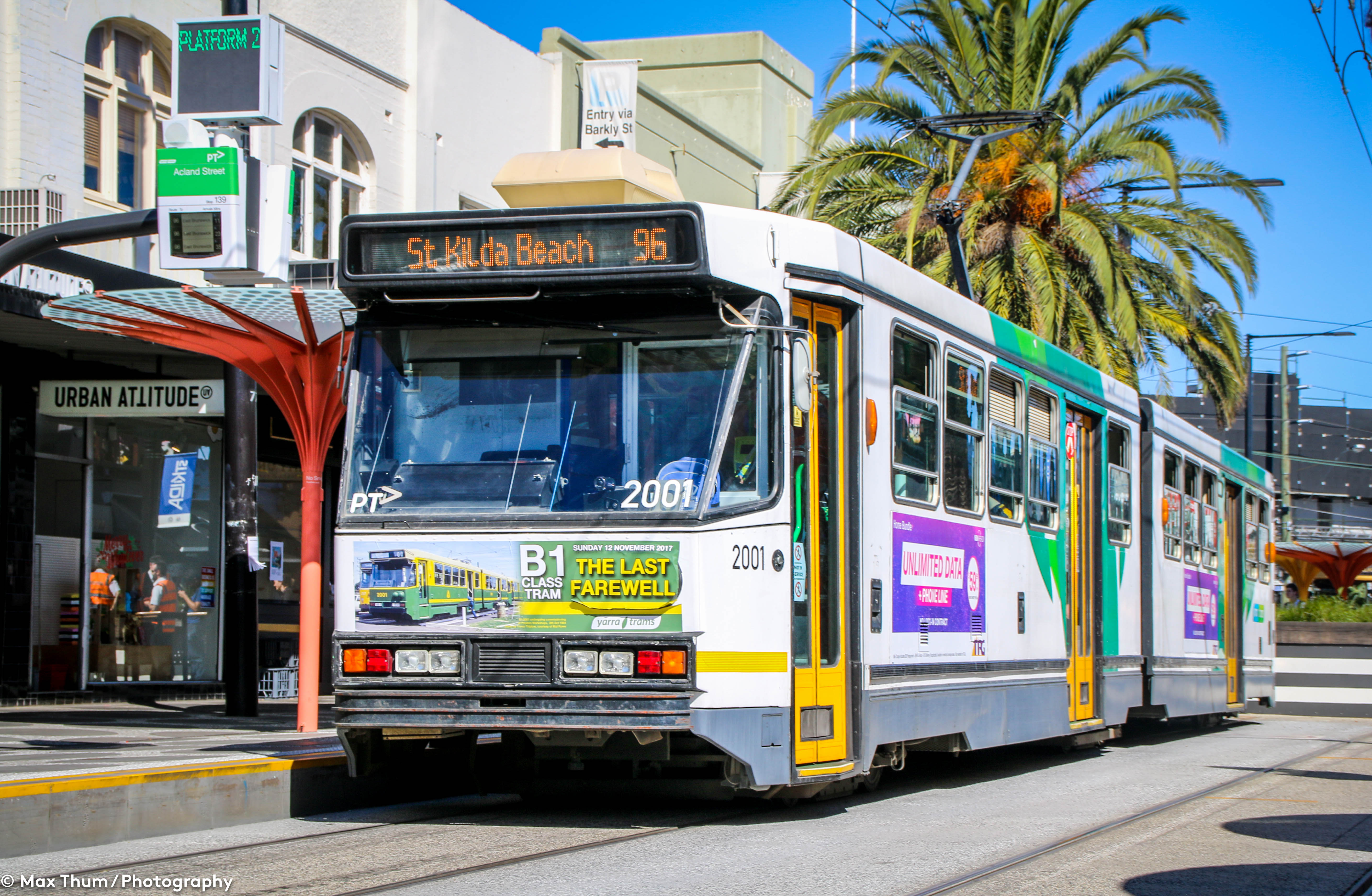 B1.2001 at St Kilda (Acland Street Terminus), (B1 Final Farewell Tour)